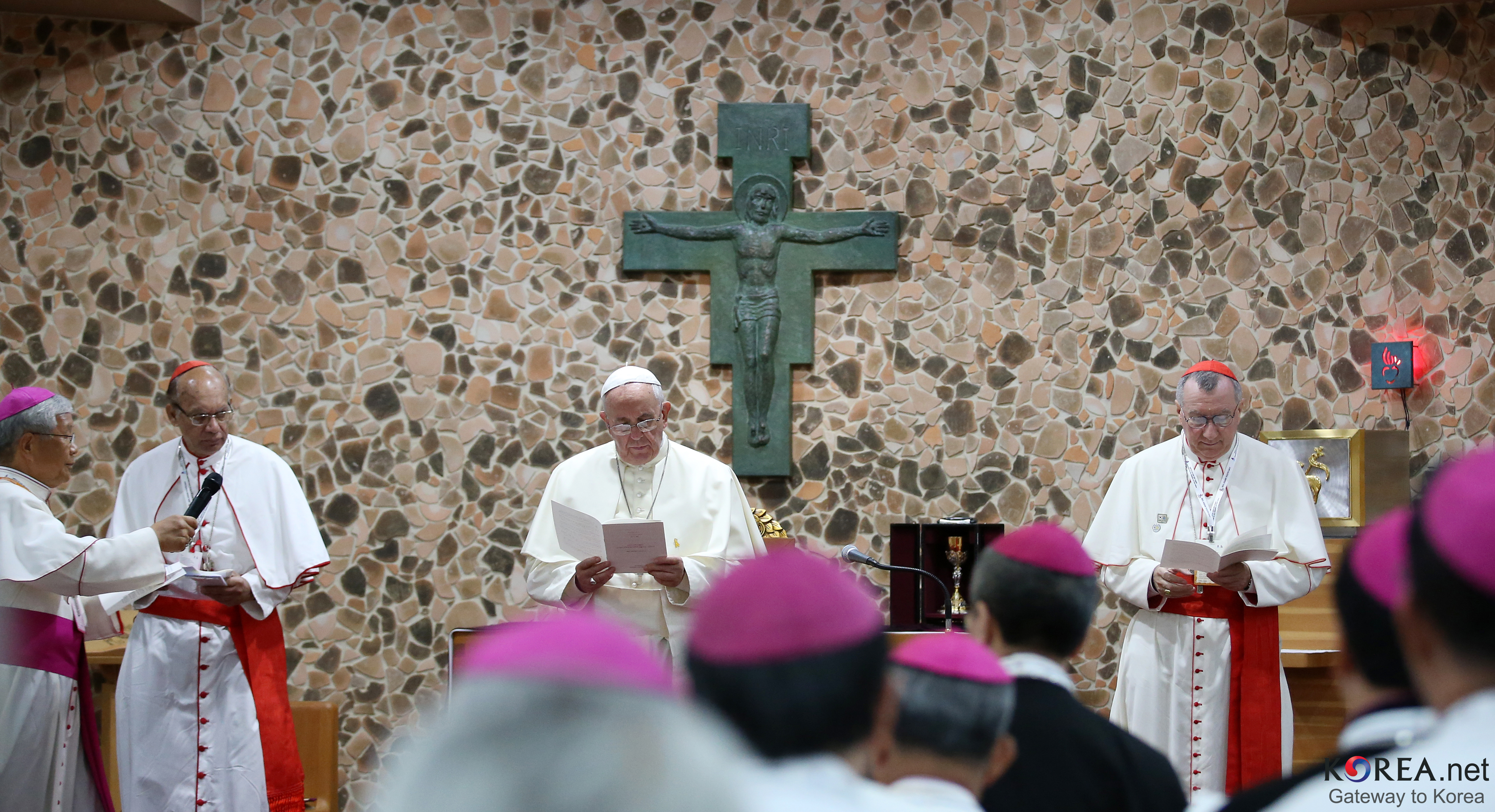 2014 Pastoral Visit of Pope Francis to Korea Haemi Martyrdom Holy Ground